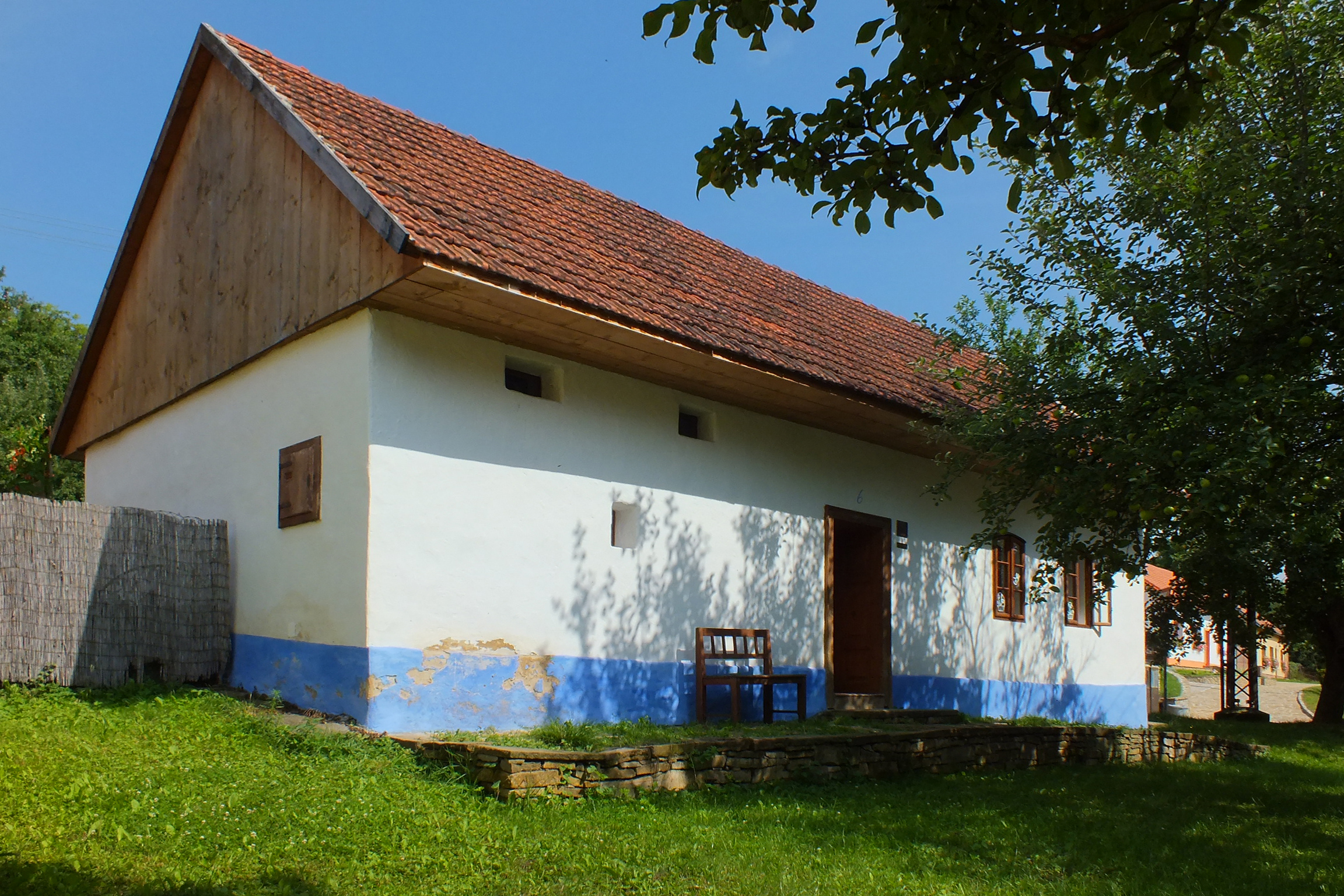 Museum of neutering in Komňa, No. 6. A person, who practiced neutering as his job, lived here. Neutering was a common job in the village in the past.